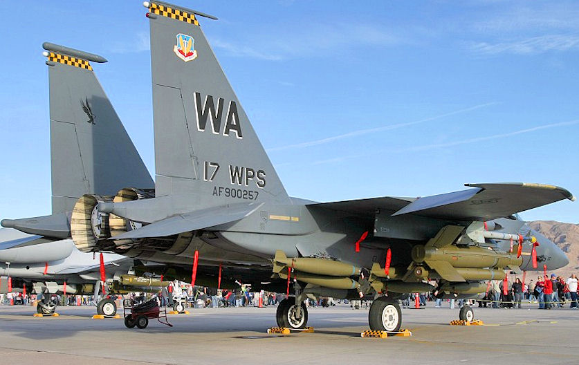 17th Weapons Squadron - McDonnell Douglas F-15E-50-MC Strike Eagle 90-0257